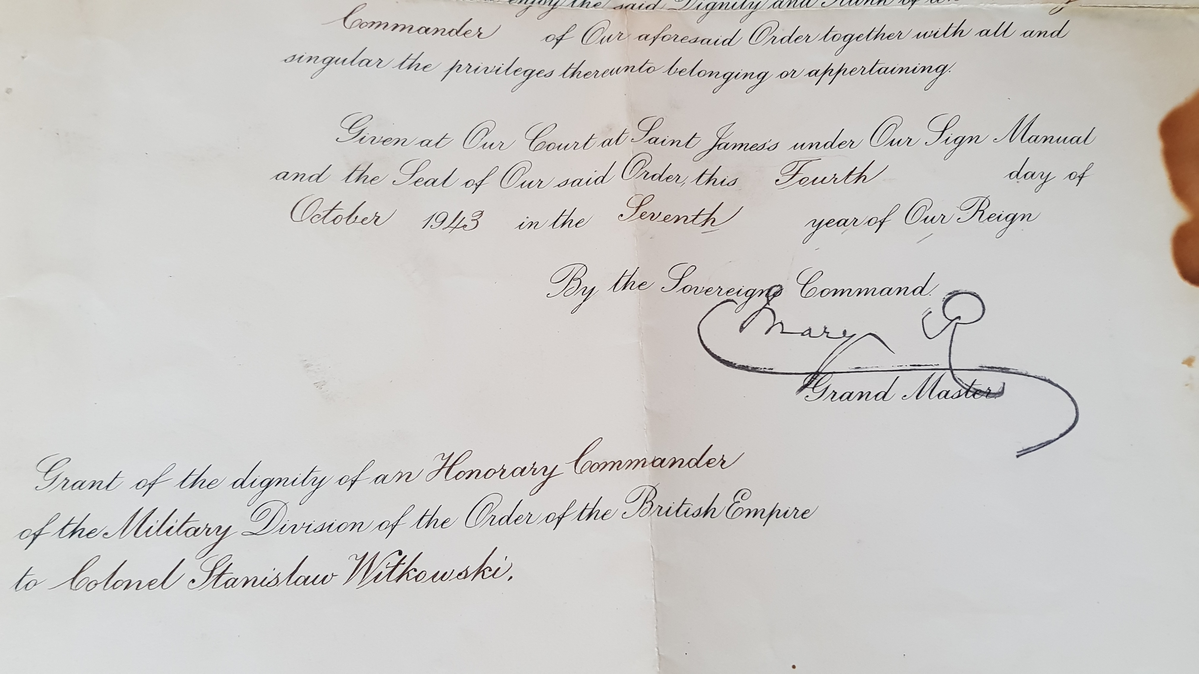 document CBE 2 colonel Stanislaw Witkowski